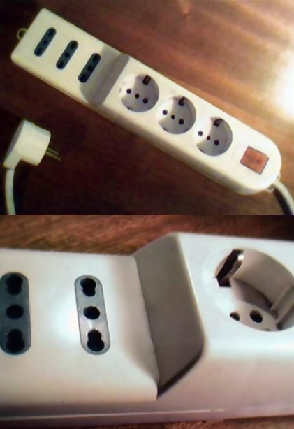 A power strip, bought in Italy. There are three large round receptacles that can take CEE 7/4, CEE 7/7, CEE 7/16, CEE 7/17 and the narrow, 10-amp version of CEI 23-50. There are also three smaller receptacles that can take CEE 7/16 and both types of CEI 23-50. This strip was sold with a CEI 23-50 plug, but I fitted a CEE 7/4 instead. It also features a power switch with a lamp in it. This sort of power strip is invaluable for dealing with the variety of plugs used in Italy. See AC power plugs and sockets for full information.